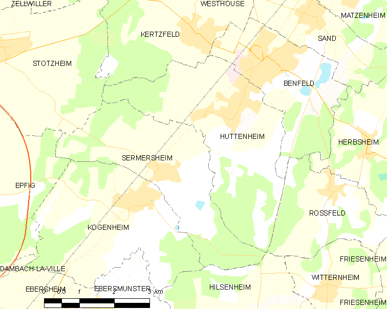 Map of French municipality